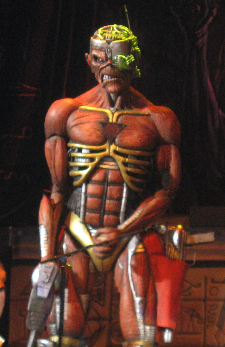 Iron Maiden's Eddie on stage on July 1st 2008